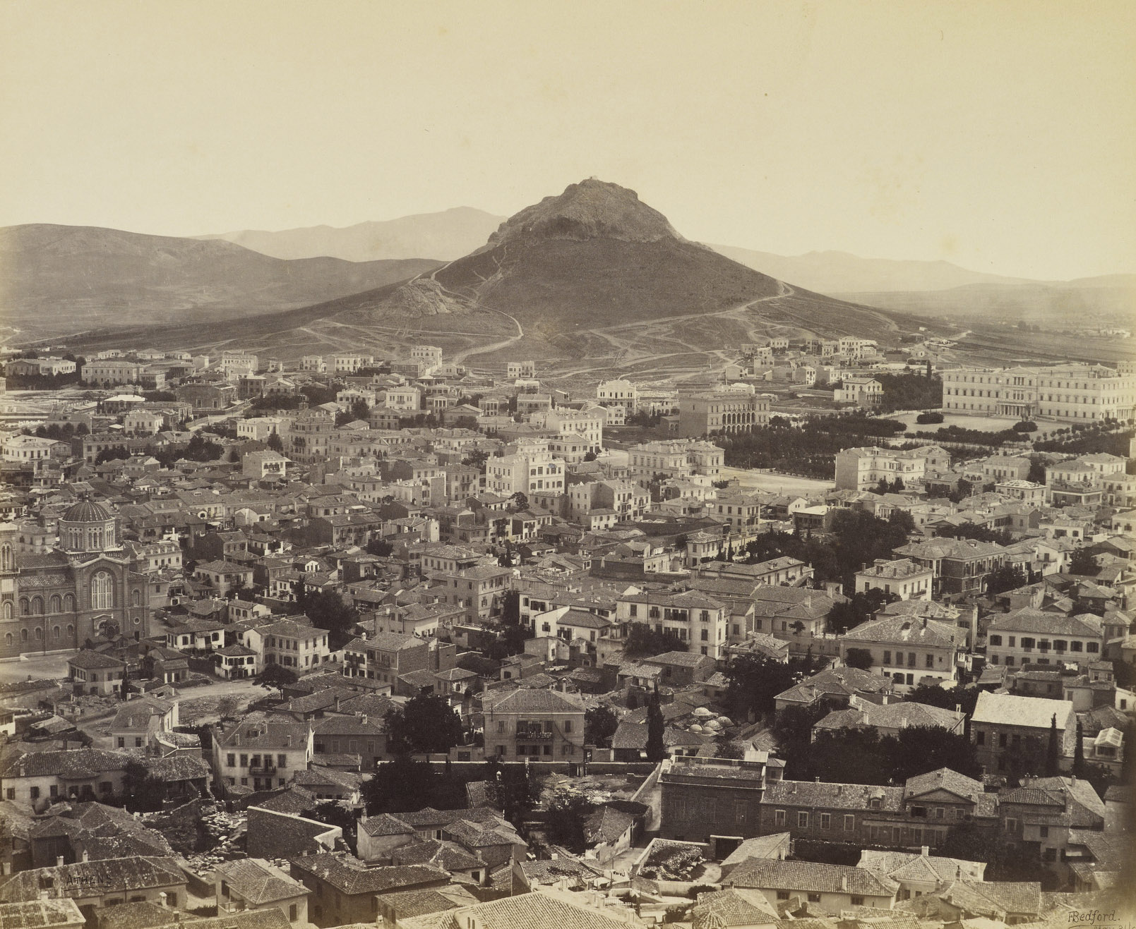 View towards Mount Lycabettus from the Acropolis